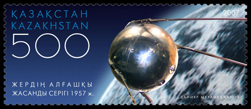 Stamp of Kazakhstan